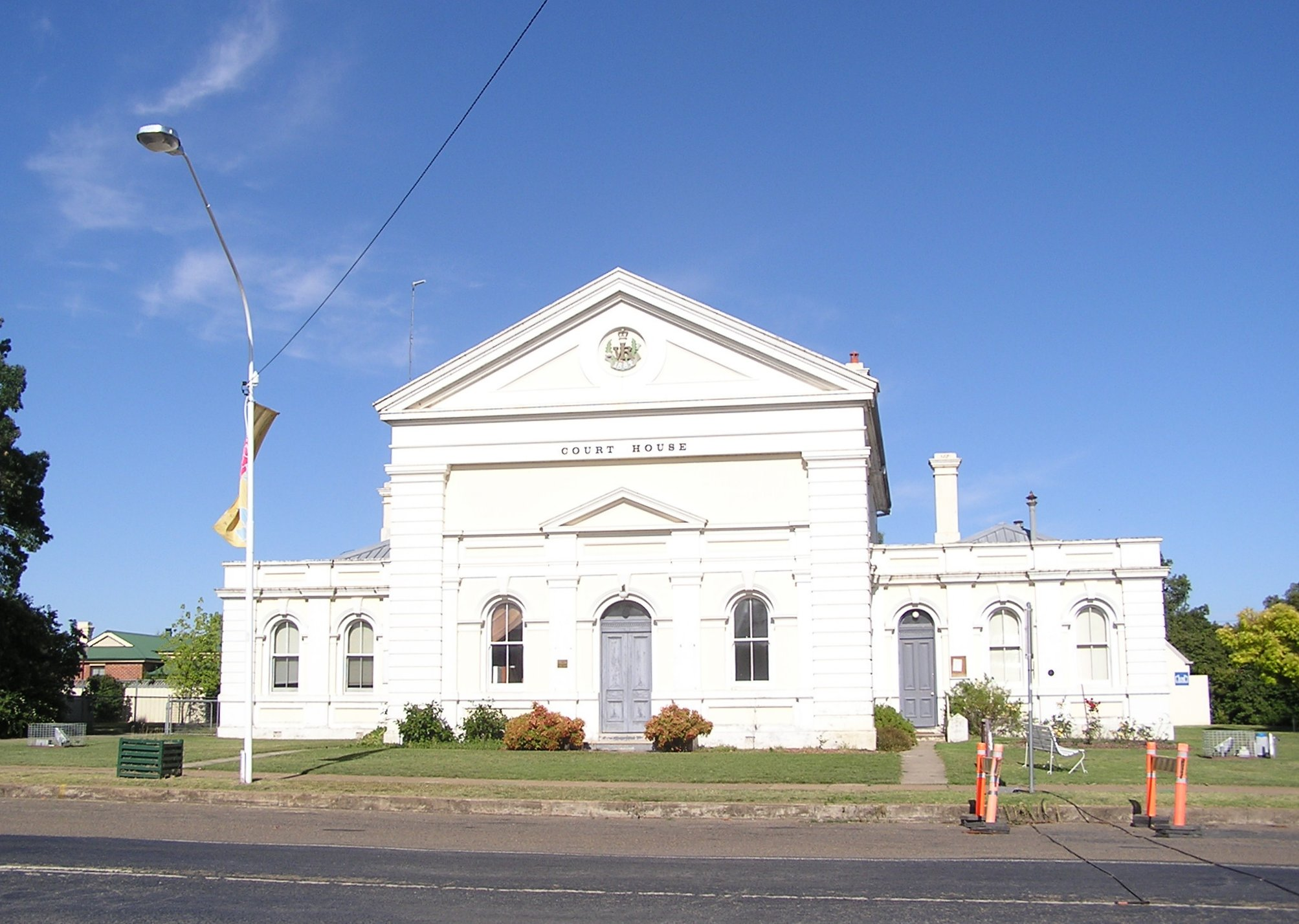 Boorowa, New South Wales, Australia Court House built 1884. From: : "Located on the corner of Marsden and Queen Streets in Boorowa this symmetrical building was designed by the Colonial Architect and completed in 1884. It has a distinctive double-height court room and Roman arches. It is an imposing and vital element in Boorowa's main street." Picture taken by AYArktos